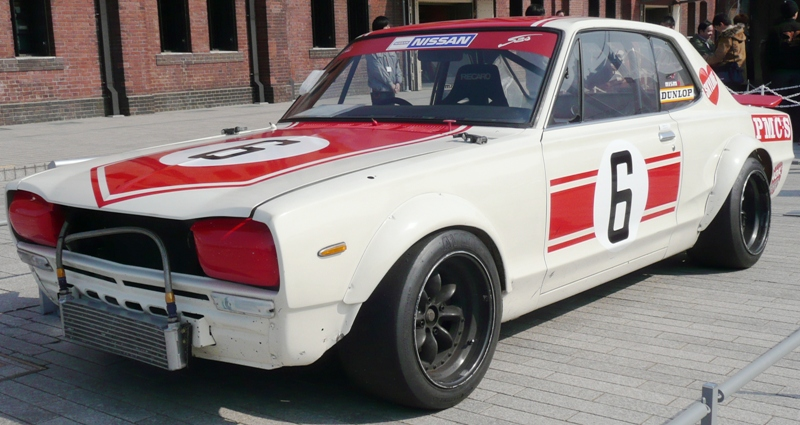 Nissan Skyline GT-R, had competed at the 1971 Japanese Grand Prix.